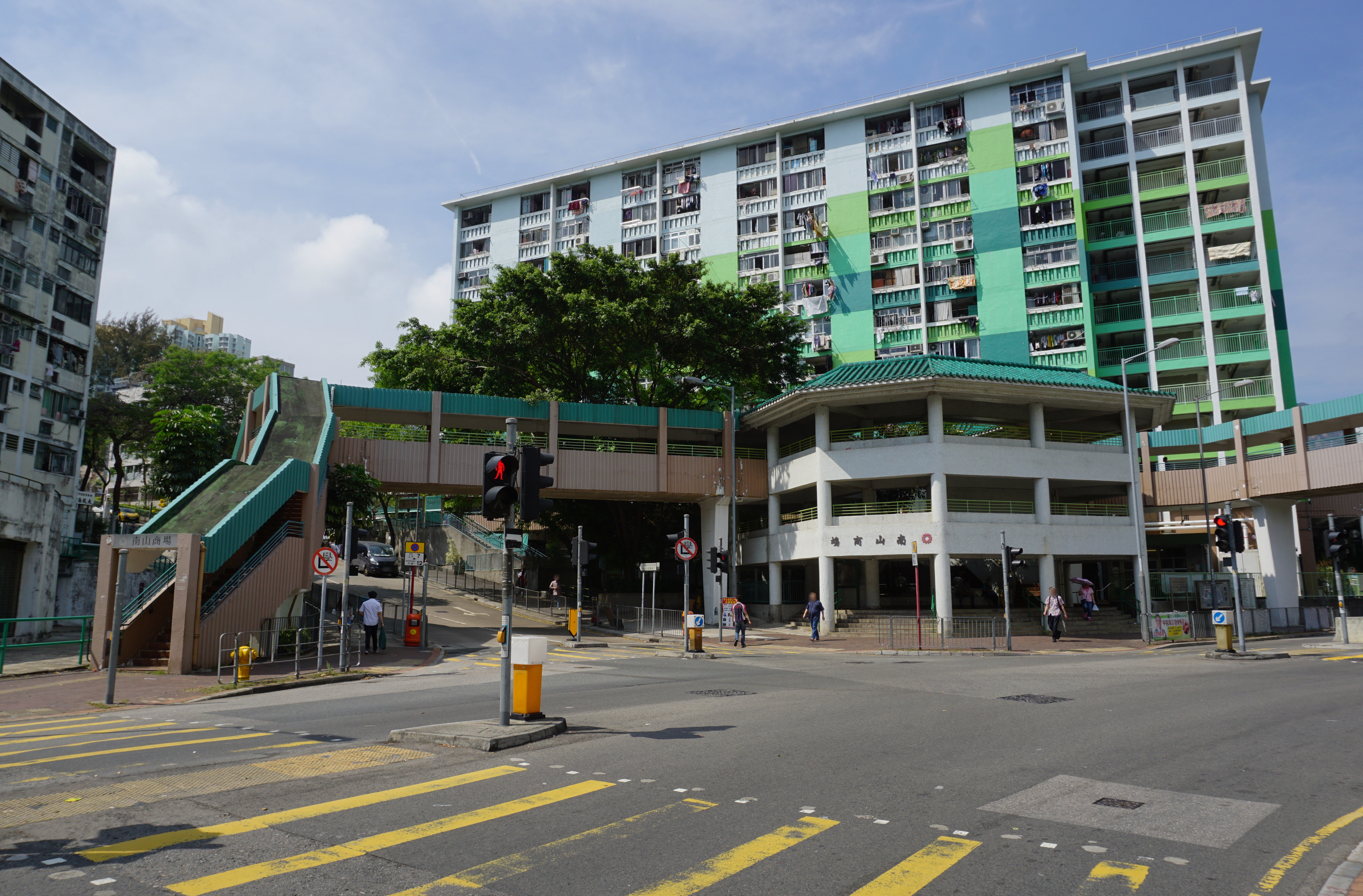 Nam Shan Shopping Centre in Shek Kip Mei, Hong Kong.